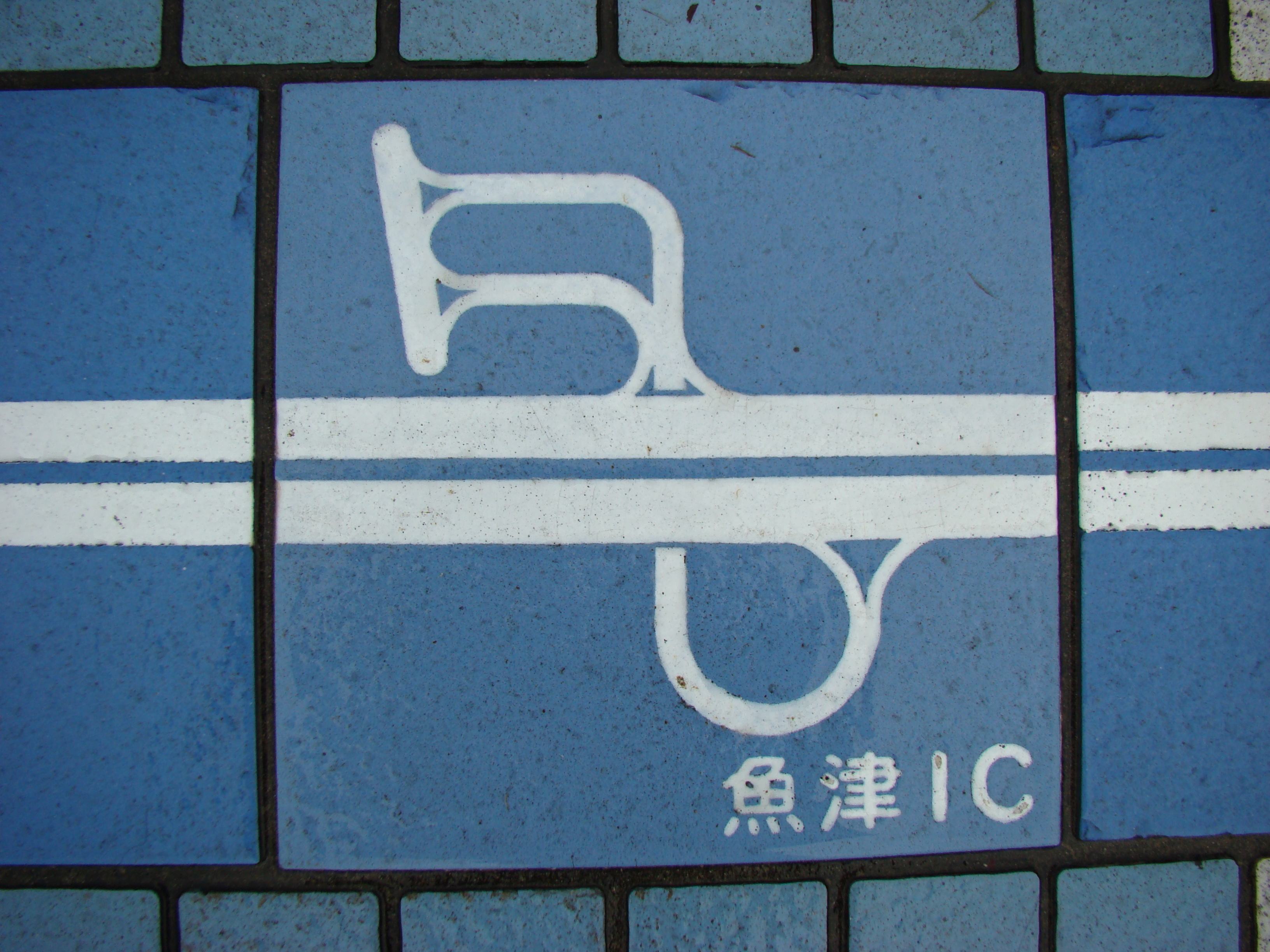 The tile which designed a shape of the Uozu Interchange（Hokuriku Expressway）（There is this tile in Hokuriku Expressway Nadachi-Tanihama Service Area.）. Place - Chayagahara,Joetsu City,Niigata Prefecture,Japan Date - August 9, 2009 Format - JPEG, 3264x2448pixel, 24bit colors. Photographer - NALA Wiki (talk)